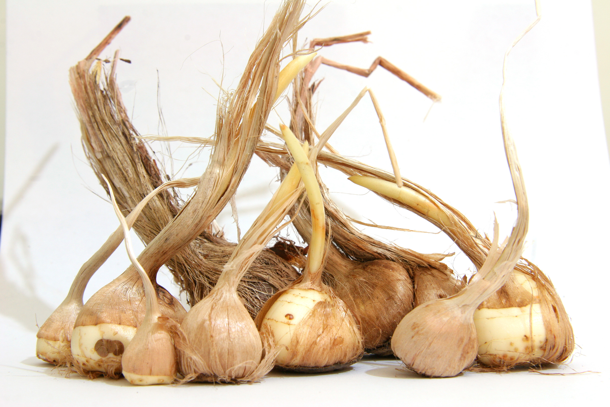 Saffron onions, from saffron farms, Torbat-e-Heidariyeh, Razavi Khorasan province, Iran - Photo by: Safa Daneshvar Saffron onions need a cold and wet ambience to produce the beautiful saffron flowers.